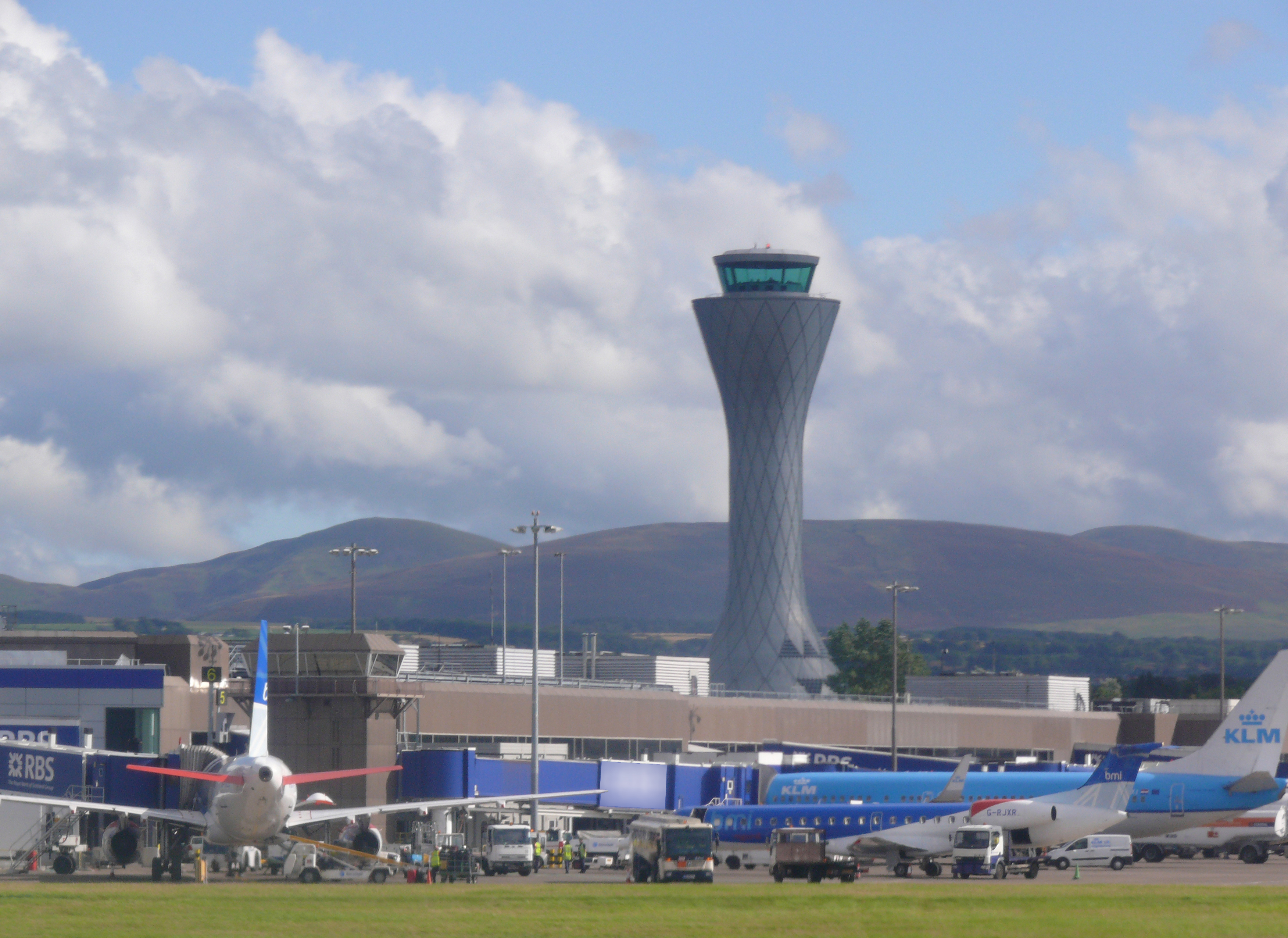 Turnhouse Edinburgh Airport (BMI Regional Embraer EMB-145EP G-RJXR can be seen in the foreground) and part of KLM Boeing 737-800 PH-BXI.